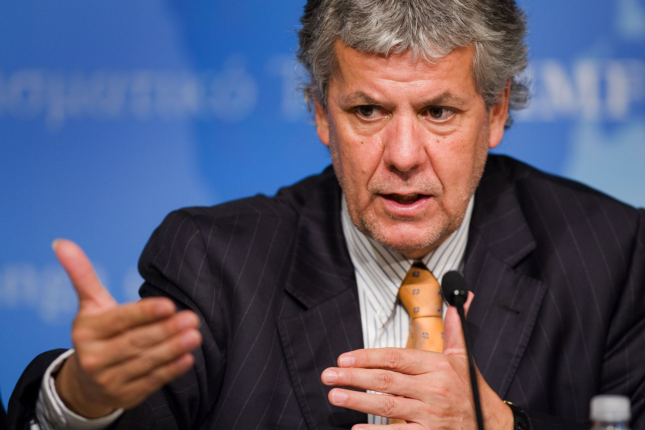 Former Chilean Minister of Finance Nicolás Eyzaguirre speaks during a press conference on economic developments in the region at IMF Headquarters in Washington DC on April 24, 2009.